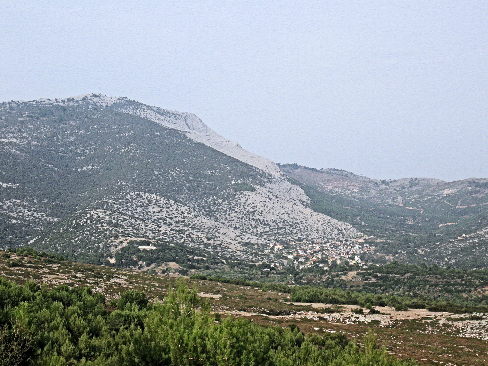 Theologos aus SW (2008)